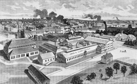 Picture of C. B. Cottrell Press Manufacturing plant, Westerly, Rhode Island. In early days, Seventh Day Baptist Cottrell closed his business on the Sabbath.